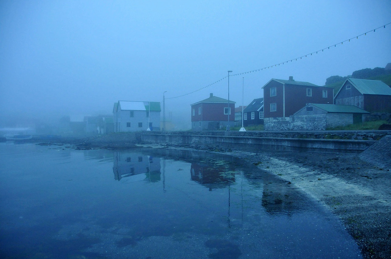 Nólsoy, Faroe Islands